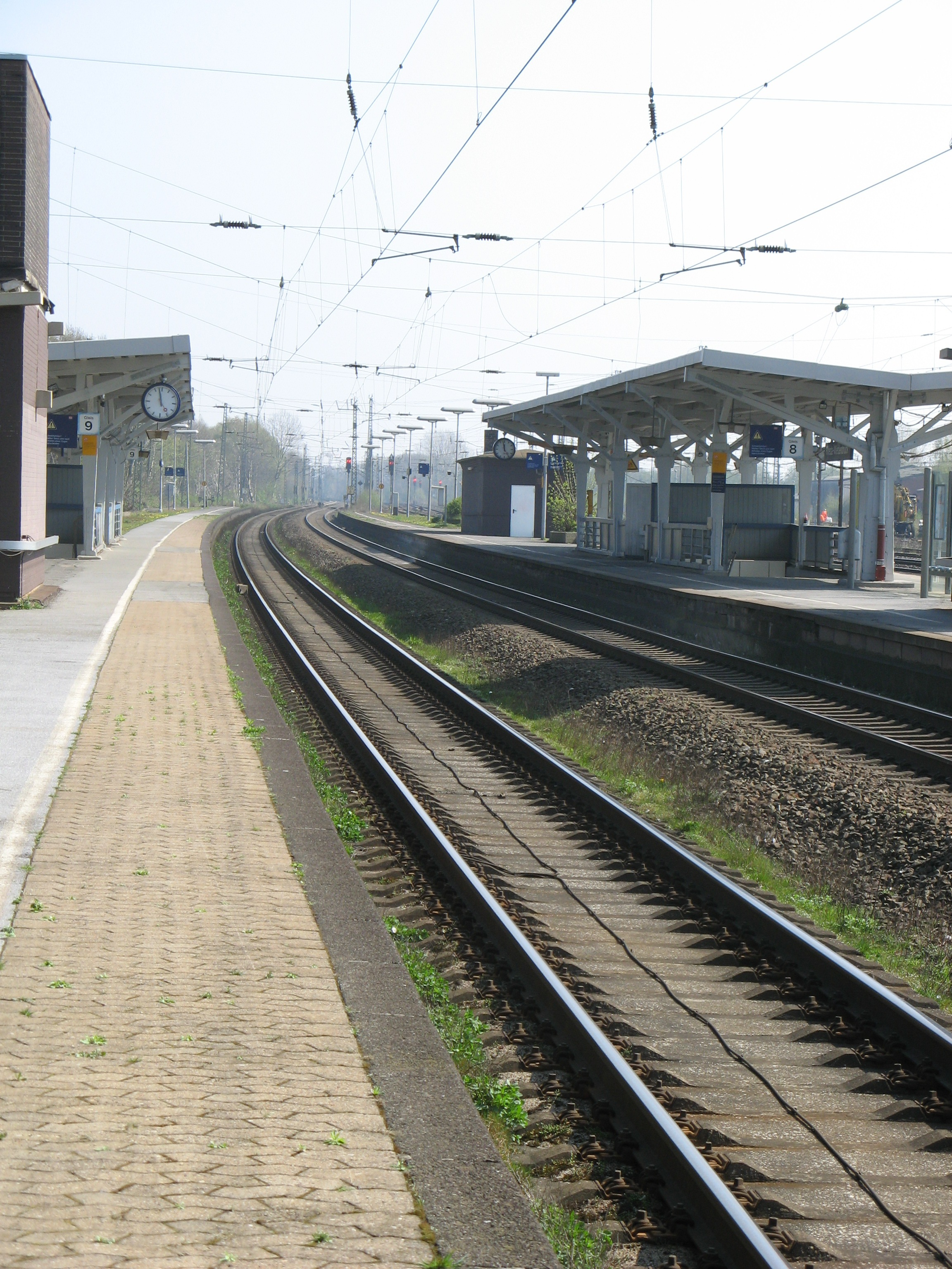 Platform nine at the train station of Rheda-Wiedenbrück. Here, for the first time, slab track has been applied in Germany in 1972